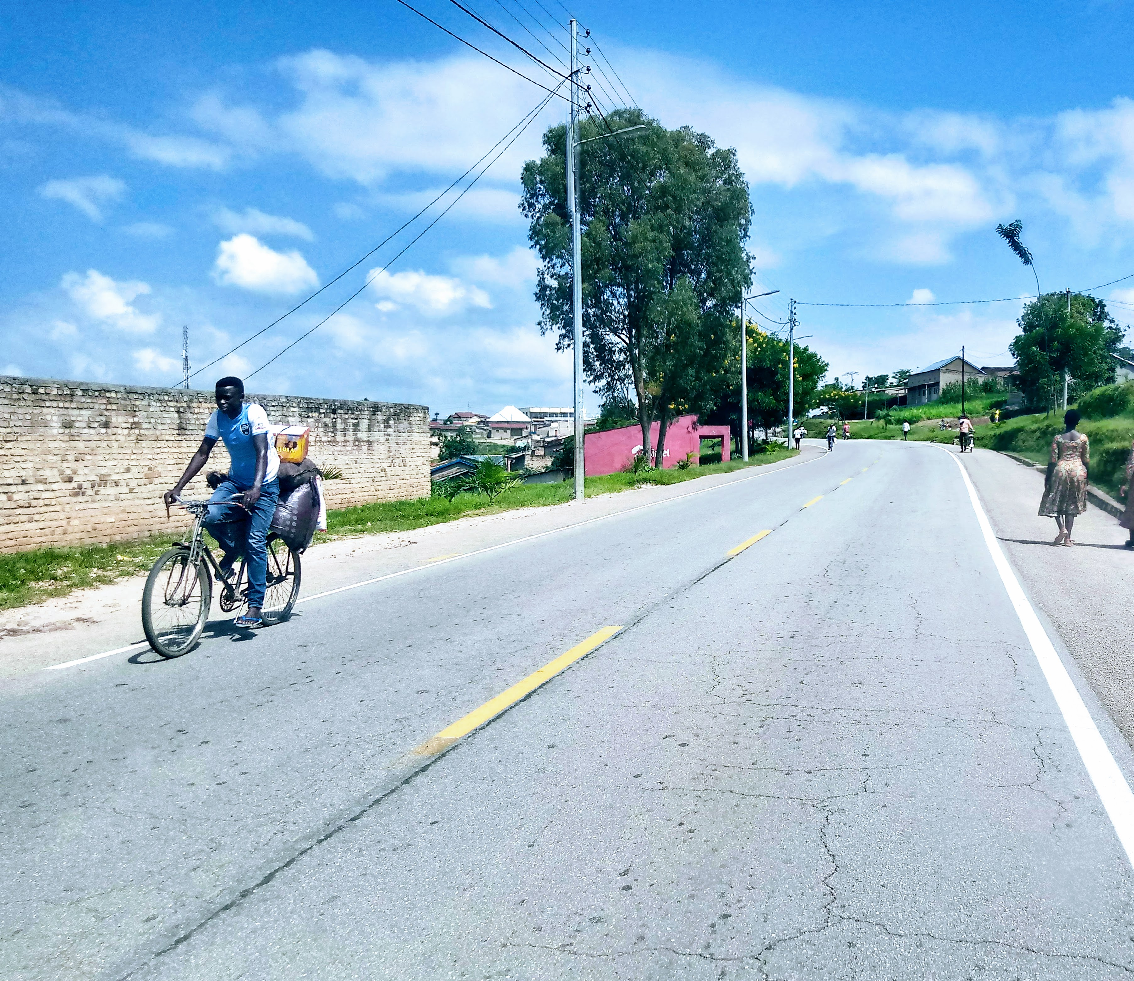 This is an image with the theme "Africa on the Move or Transport" from: Rwanda